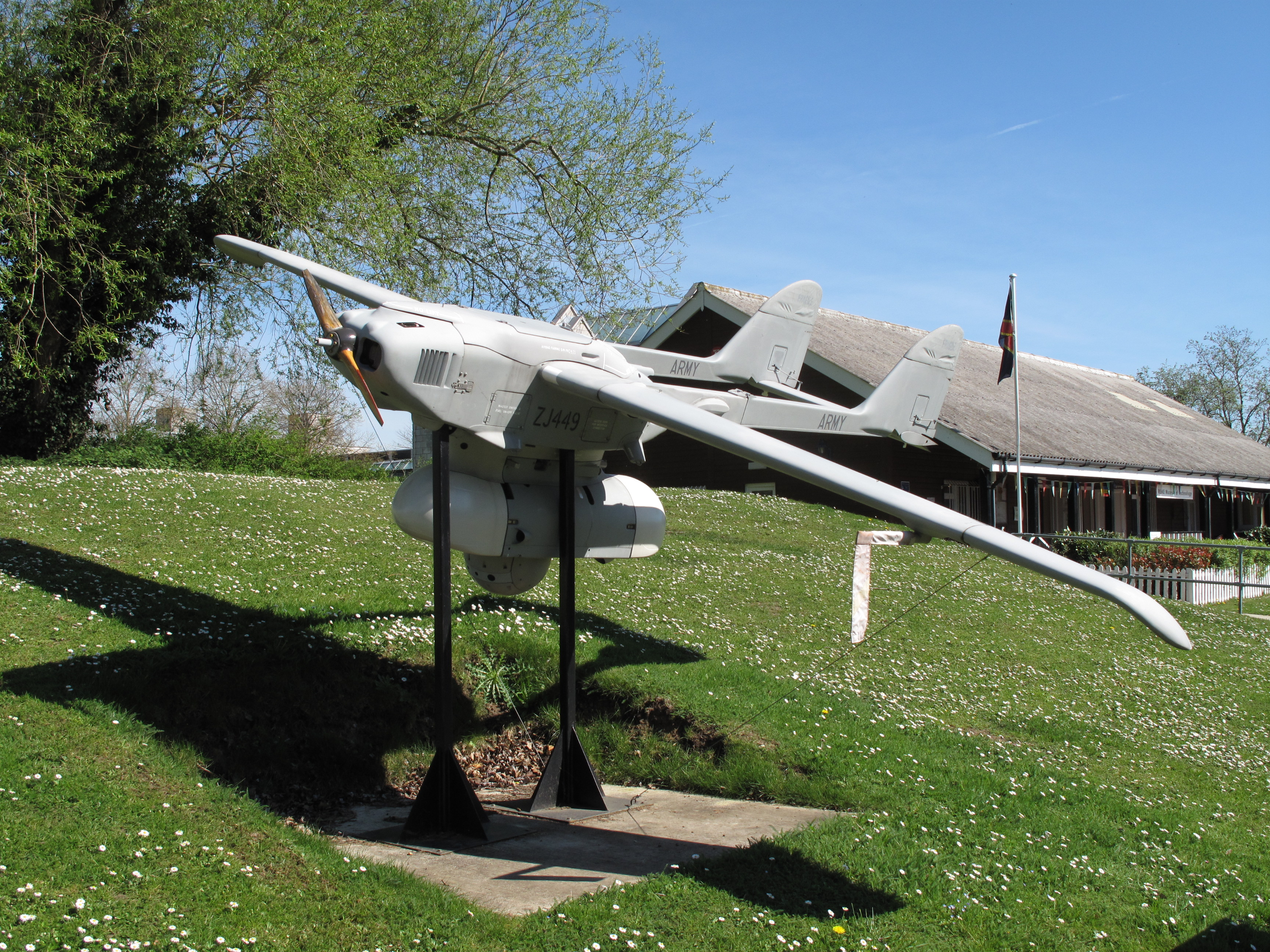 BAE Phoenix on display outside The REME Museum of Technology